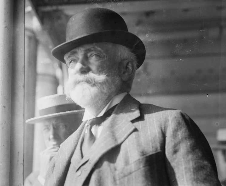 F. W. Whitridge circa 1914 Bain News Service,, publisher. F.W. Whitridge [between ca. 1910 and ca. 1915] 1 negative : glass ; 5 x 7 in. or smaller. Notes: Title from unverified data provided by the Bain News Service on the negatives or caption cards. Forms part of: George Grantham Bain Collection (Library of Congress). Format: Glass negatives. Repository: Library of Congress, Prints and Photographs Division, Washington, D.C. 20540 USA, General information about the Bain Collection is available at Persistent URL: Call Number: LC-B2- 3080-7